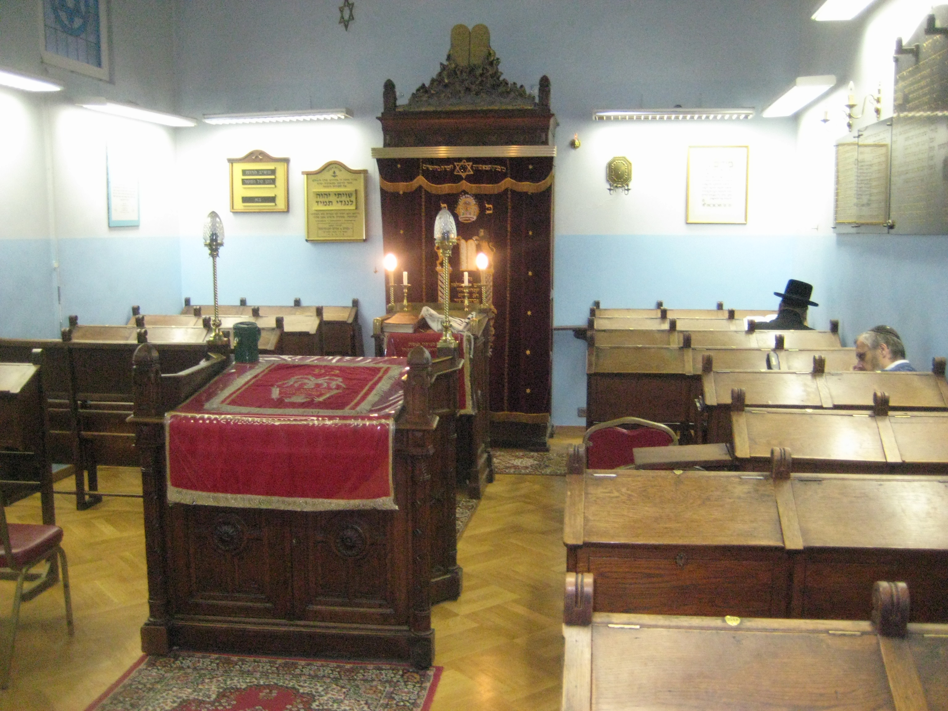 Het interieur van de synagoge